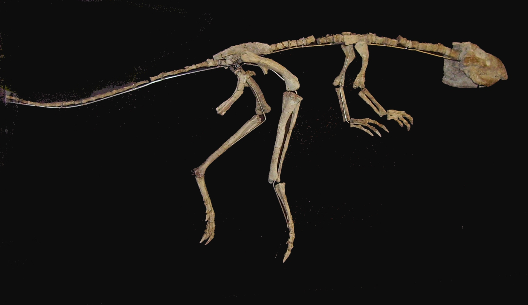 Photographer: User:Ballista from Dinosaurland, Lyme Regis, England